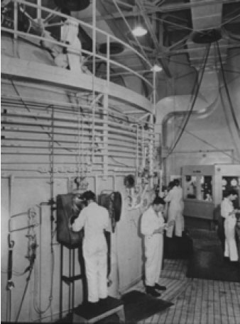 These workers are standing outside the “8-Ball,” a 1-million-liter sphere used for testing static aerosols of biological agent preparations during the United States’s offensive biological warfare program. The building enclosing the 8-Ball and its supporting infrastructure were destroyed by fire in 1974. The sphere remains today as a historical monument at Fort Detrick, Frederick, Maryland.